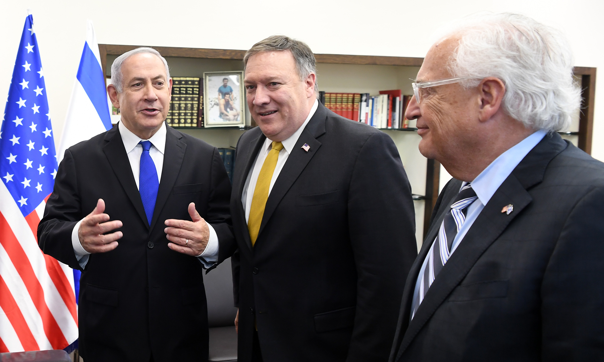 SecStae Mike Pompeo viasit to Israel. April 2018